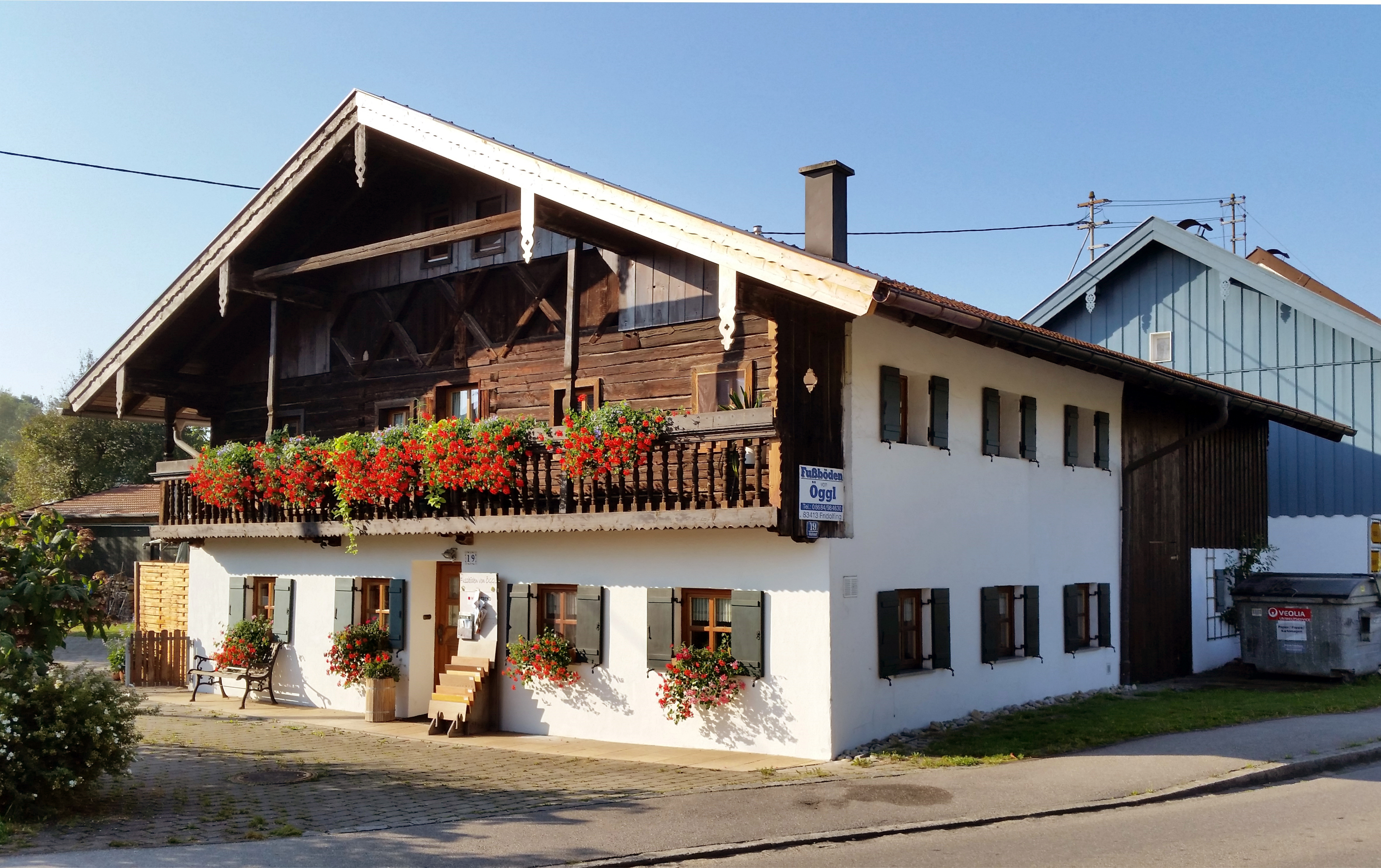 This is a photograph of an architectural monument.